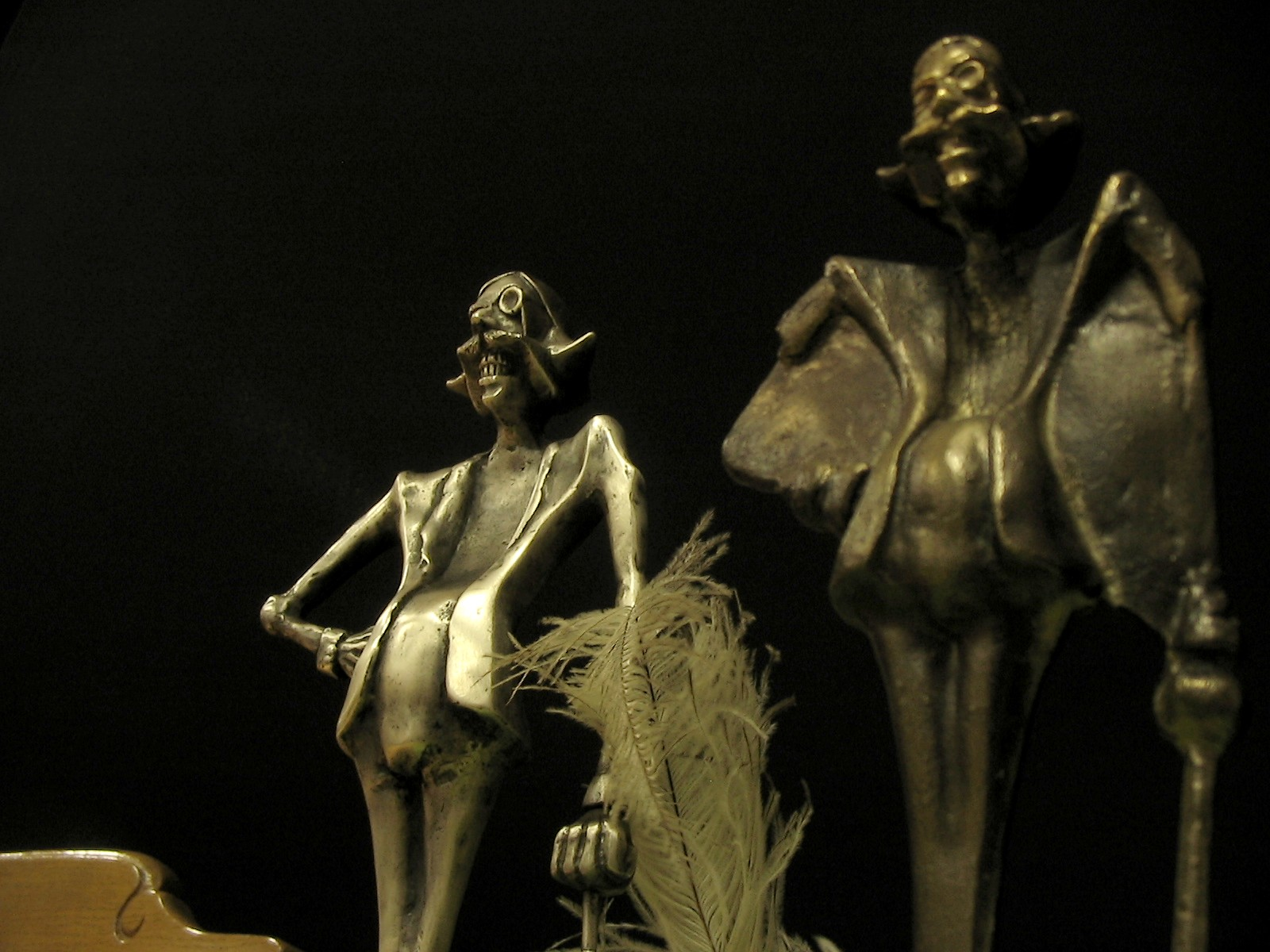 the prize in Zielona Góra's Festival of Cabaret - the statue of Patisohn